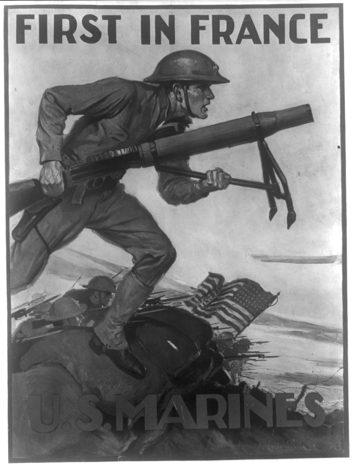 Title: First in France--U.S. Marines Abstract: Poster showing a Marine carrying a mortar into combat, with American flag behind. Physical description: 1 print (poster) : lithograph, color ; 71 x 54 cm. Notes: John A. Coughlin.